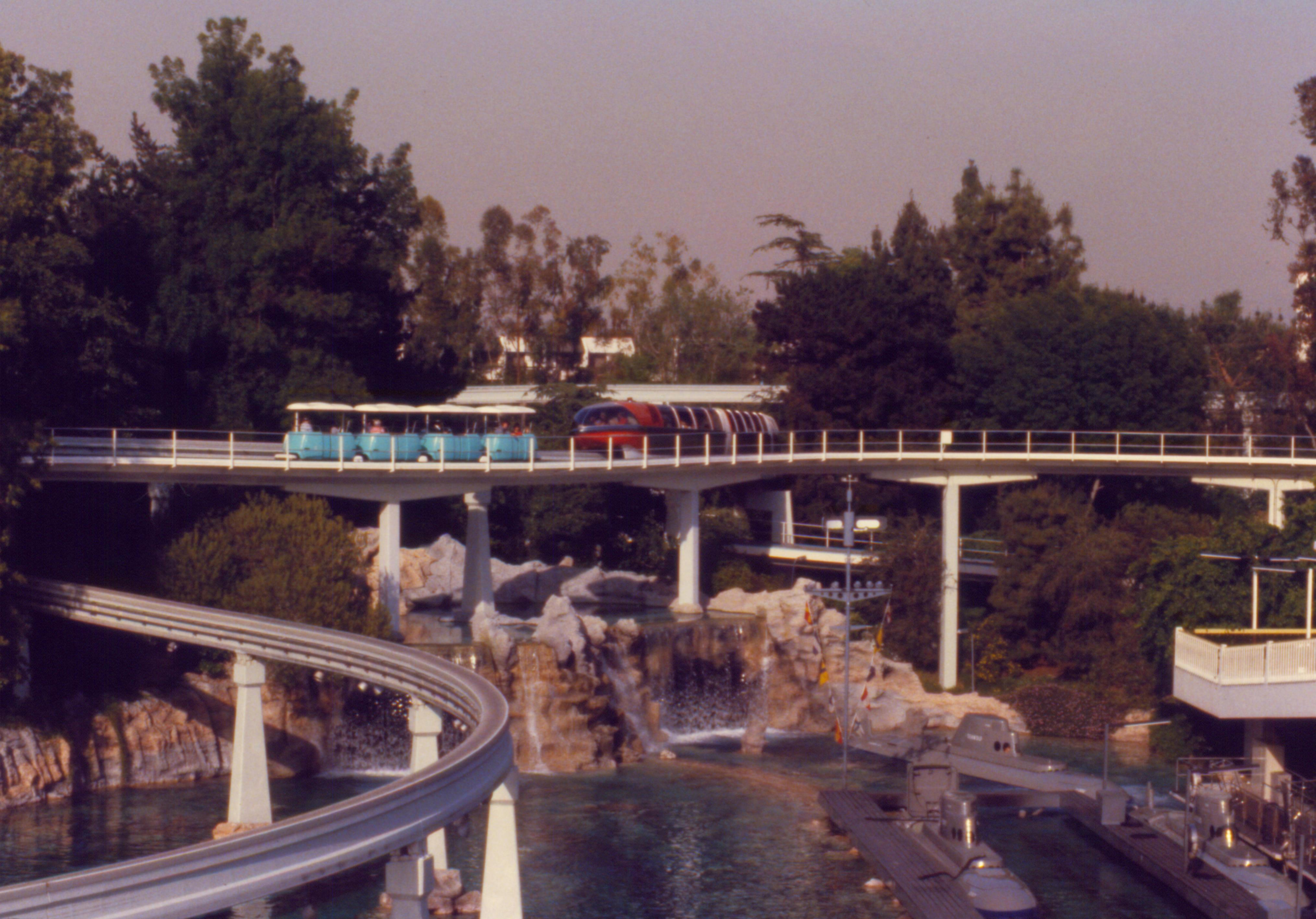 Gone except for the monorail. Although the I guess the submarines are about the same for the Nemo version, except for a new paint job. Scan of a Ektachrome transparency taken with an Olympus OM-1. Adjusted with Picasa. (1979-04g-04.jpg)